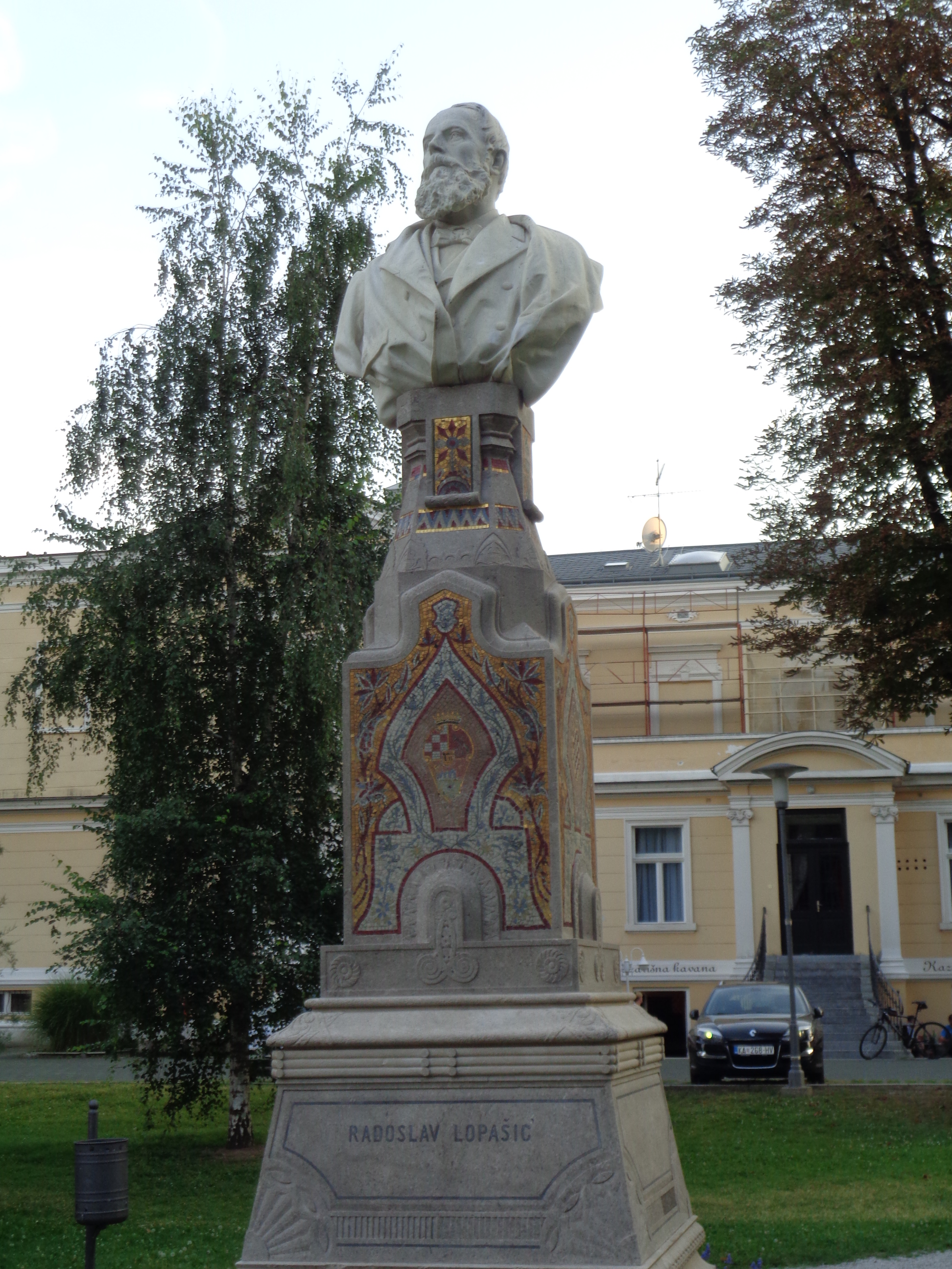 Radoslav Lopašić, Croatian historian - monument in Karlovac, Croatia